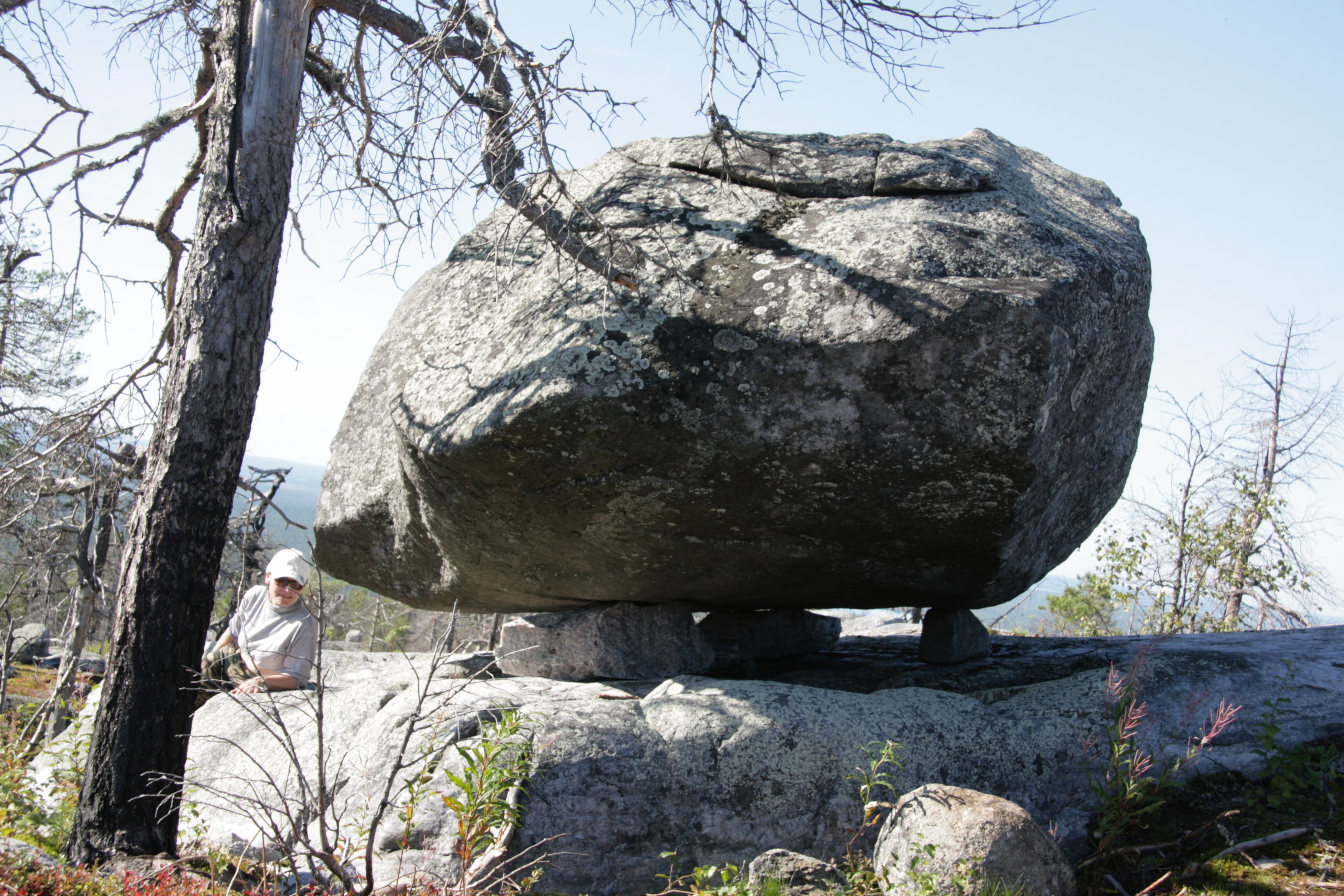 Seid on Vottovaara mountain. Large boulder is locared on 3 small rocks, which lay on another large boulder. Looka at a person near it to understand rock sizes.